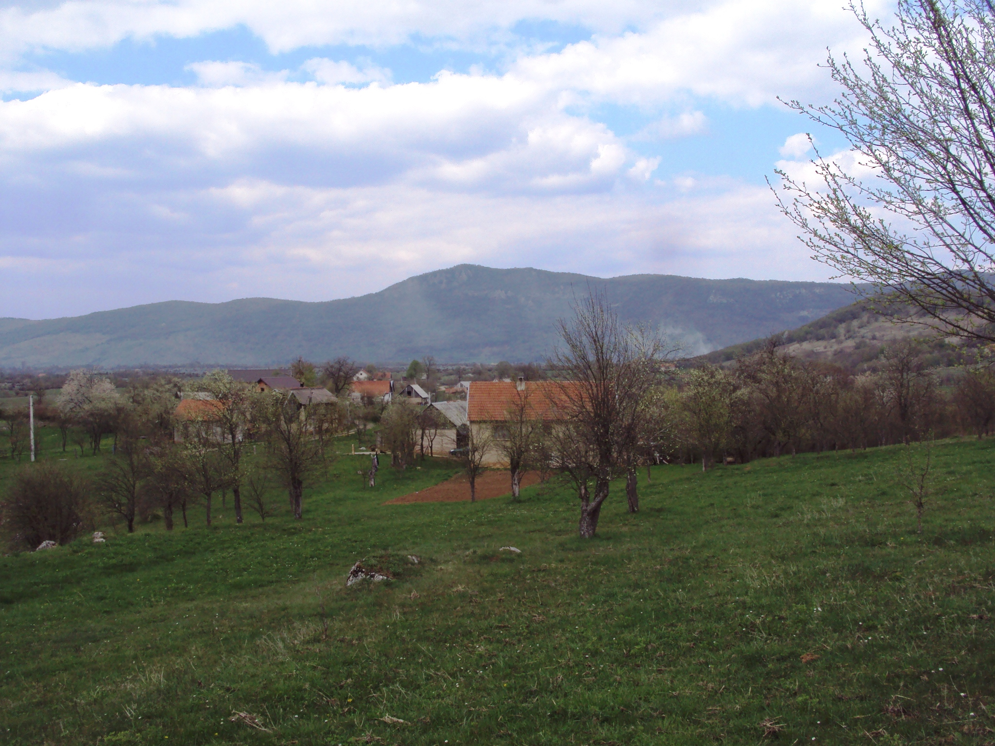 The village of Brloška Dubrava near Otočac, Region of Lika, Croatia